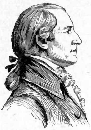 Portrait drawing of United States jurist St. George Tucker (1752-1828)